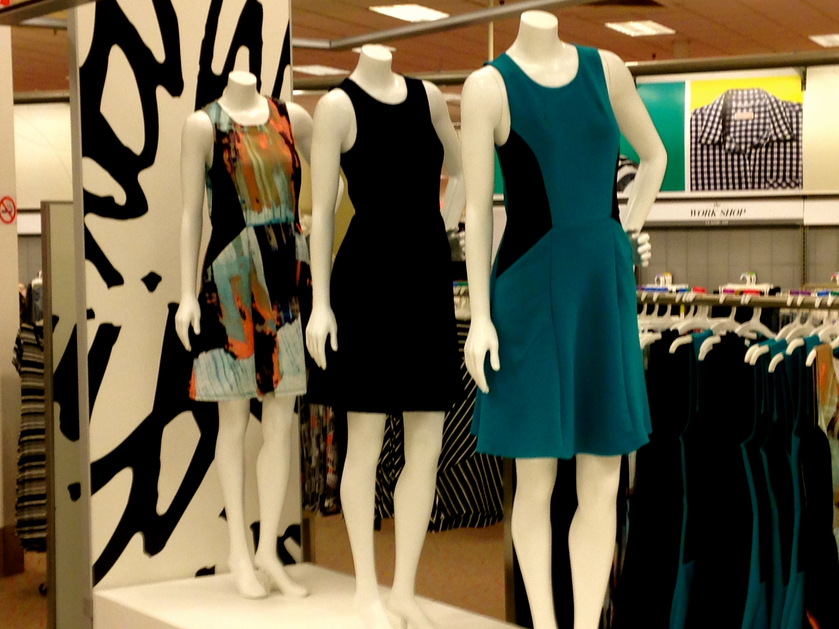 The A-line dress made a comeback in 2014. Hemlines also became shorter than they were in the early 2010s.